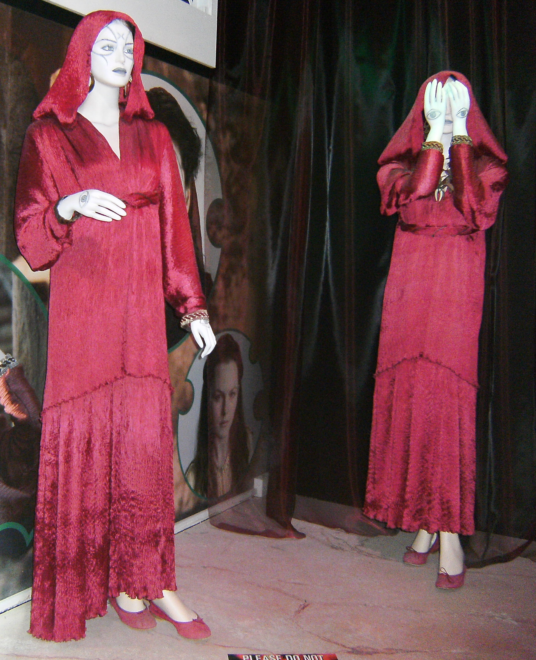 "The Fires of Pompeii" Doctor Who Experience